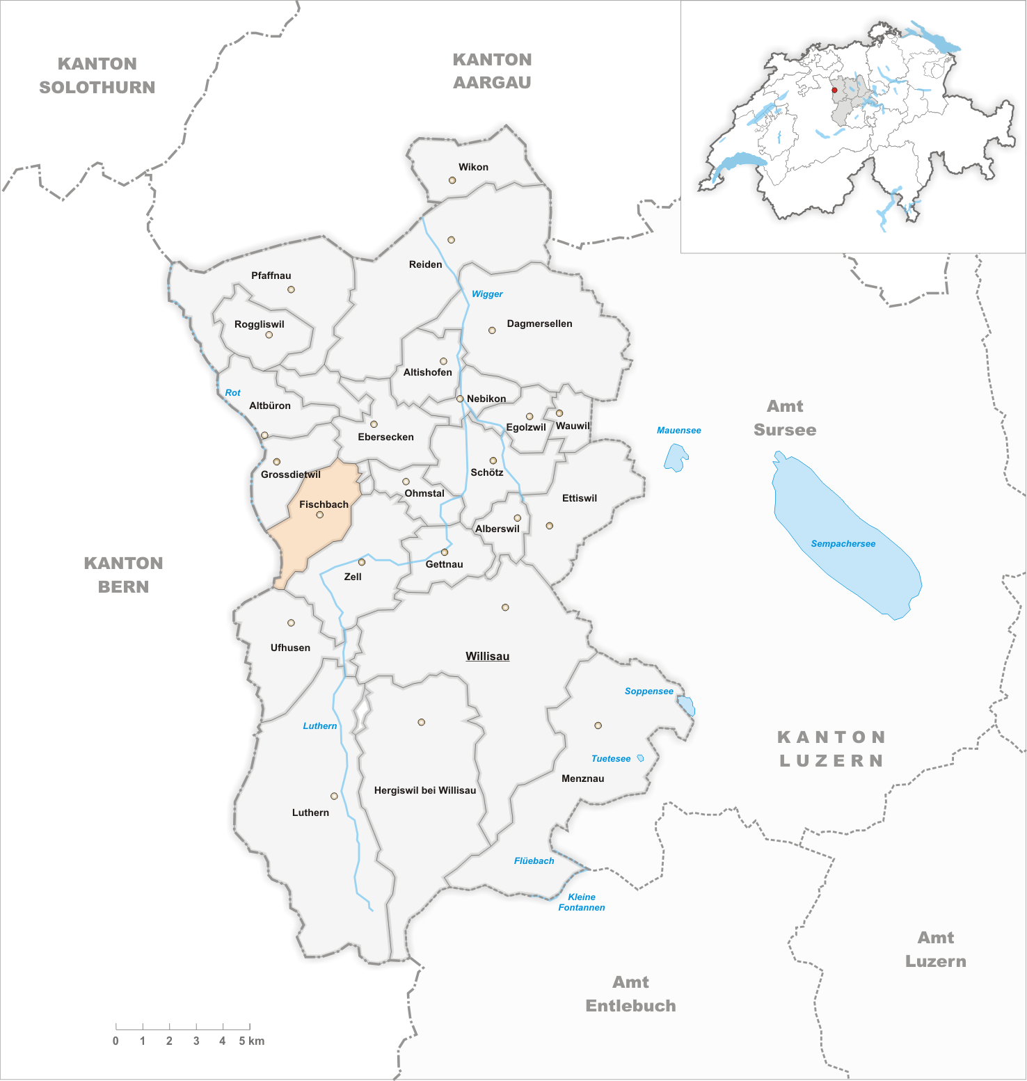 Municipality Fischbach